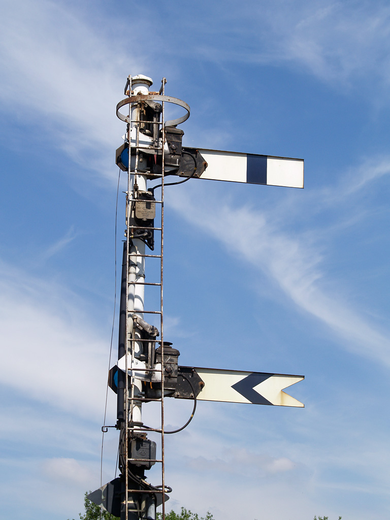 Castleton East Junction signal box 59 signal (Up Main Home 2, with R57 Up Main I.B. Home 1 Distant below). Sunday 8th June 2008